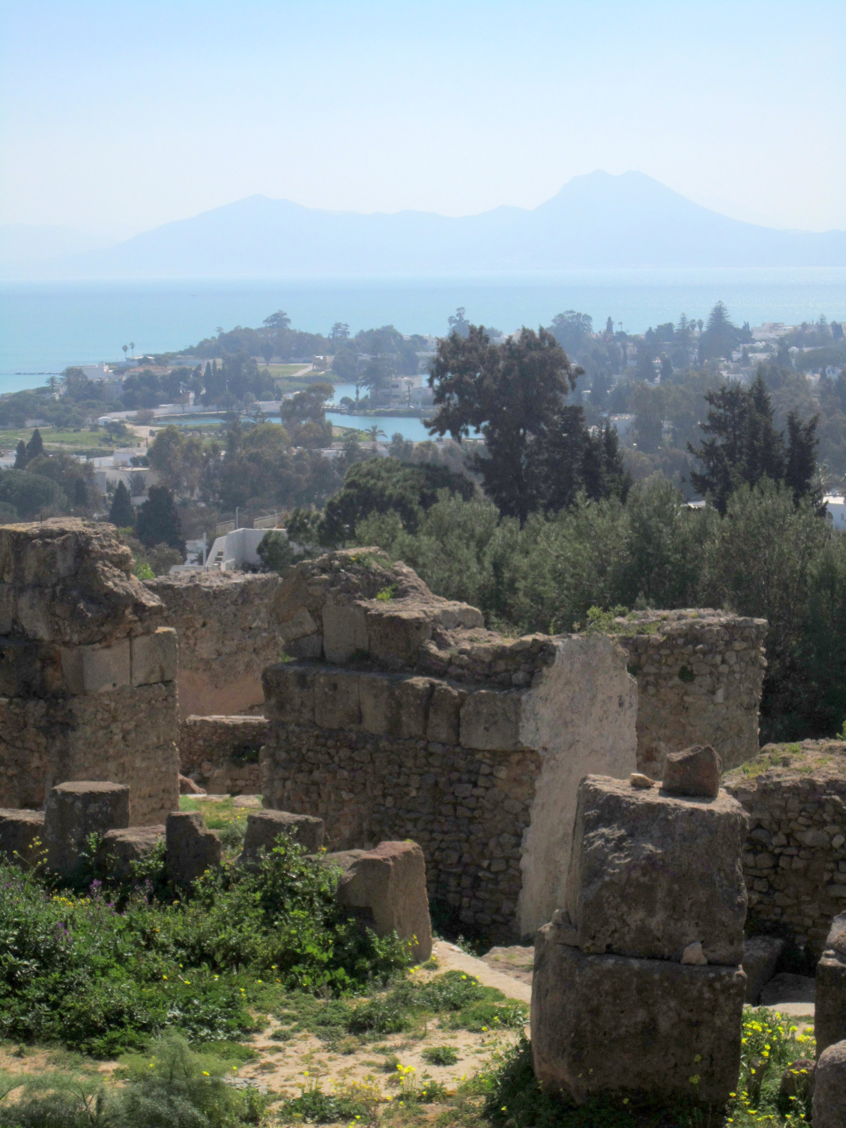 View of the Bou Kornine mountain, the gulf of Tunis and the punic ports of Carthage from Byrsa